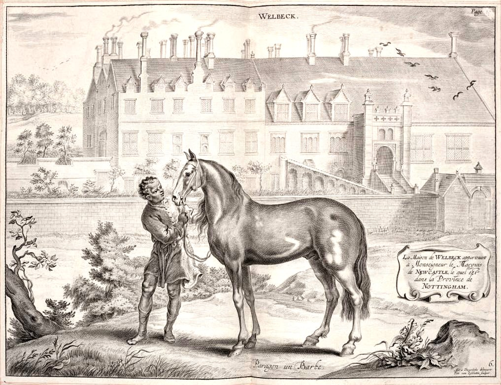 Welbeck Paragon un Barbe, engraving (reprinted 1743) by C. Caukercken, after Abraham van Diepenbeeck, from the first Duke of Newcastle's A general system of horsemanship in all its branches (new edition, printed for J. Brindley, bookseller to His Royal Highness the Prince of Wales, in New Bond-street, 1743)